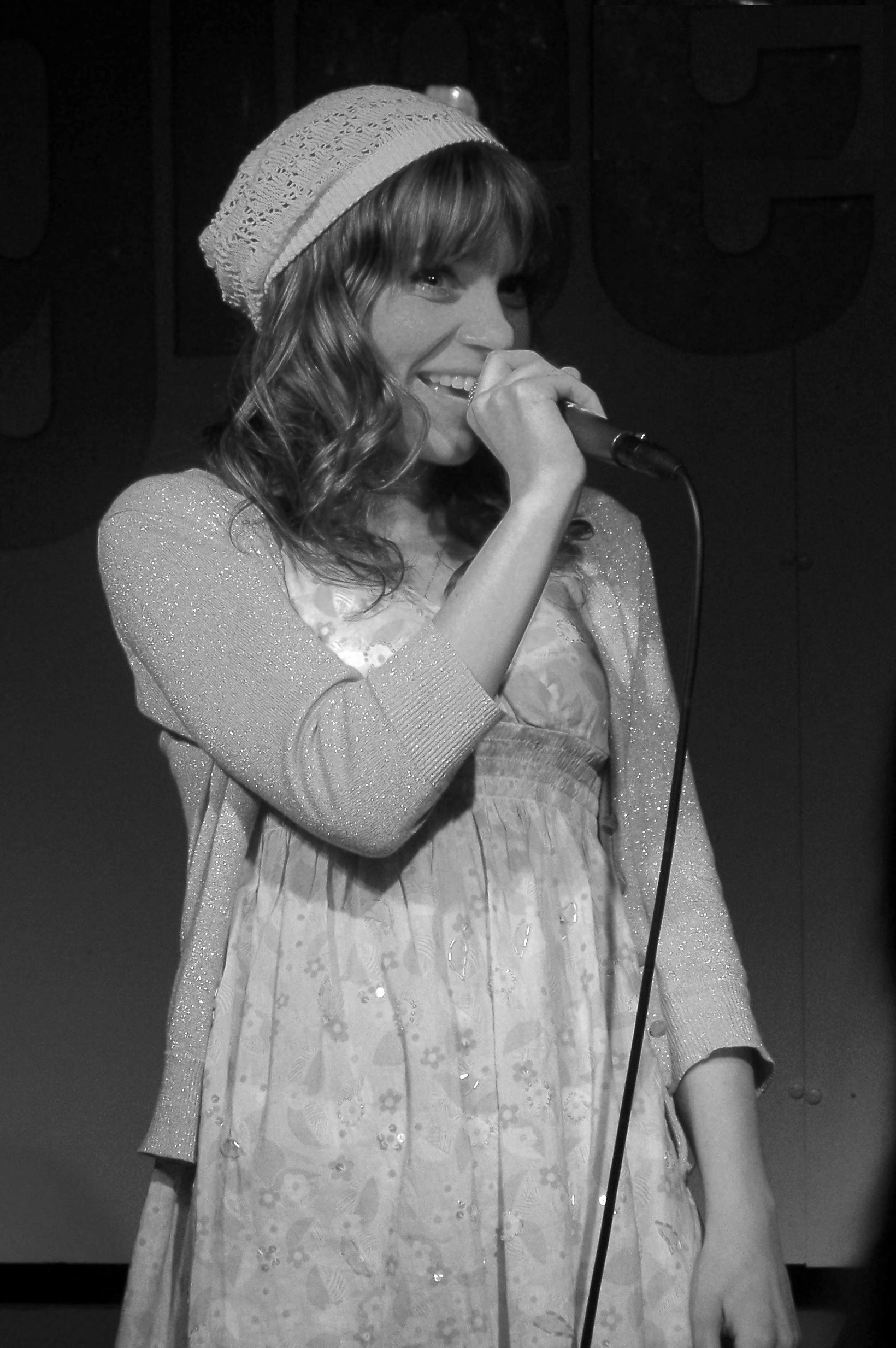 Photograph taken by Katherine Shaw at the Glee Club, Birmingham, UK on 15 May 2007.